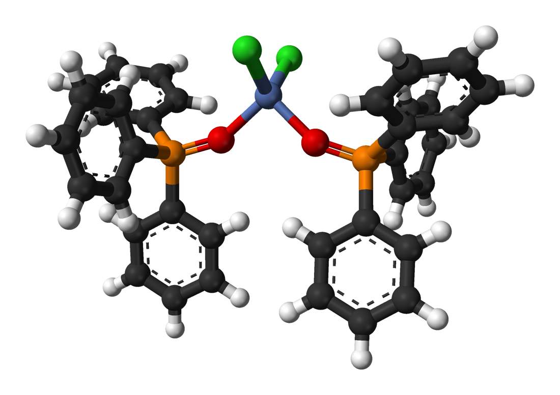 Ball-and-stick model of the dichlorobis(triphenylphosphine oxide)nickel(II) complex, (Ph3PO)2NiCl2, as found in the crystal structure. X-ray crystallographic data from Acta Cryst. (2004). E60, m1861-m1862. Model constructed in CrystalMaker 8.1. Image generated in Accelrys DS Visualizer.